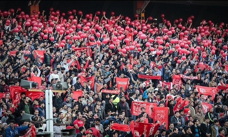 Tractor Sazi F.C. supporters in match with Pakhtakor, AFC Champions League